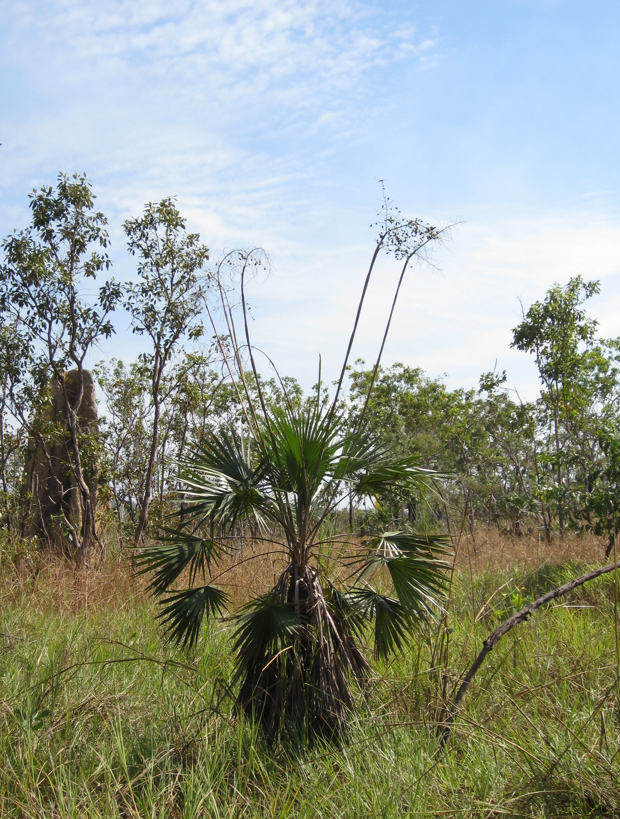 Family:Arecaceae Genus:Livistona Livistona humilis sand palm Thanks to Tony Rodd for ID the most widespread species present in the Northern Territory. source - ID help greatly appreciated - and any recommended references to help learn some native Australian plants - thanks Along a creek near Florence Falls, Litchfield National Park, NT, Australia i09_0501 039